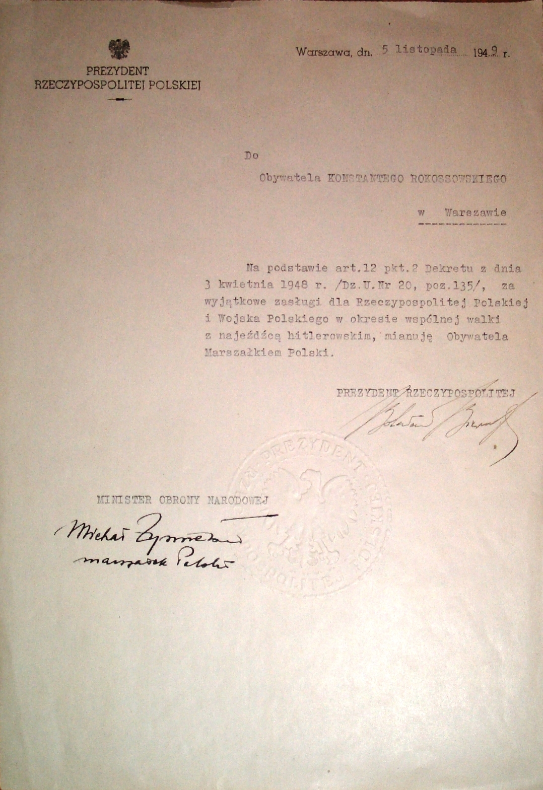 Konstantin Rokossovsky's nomination as marshall of Polish army